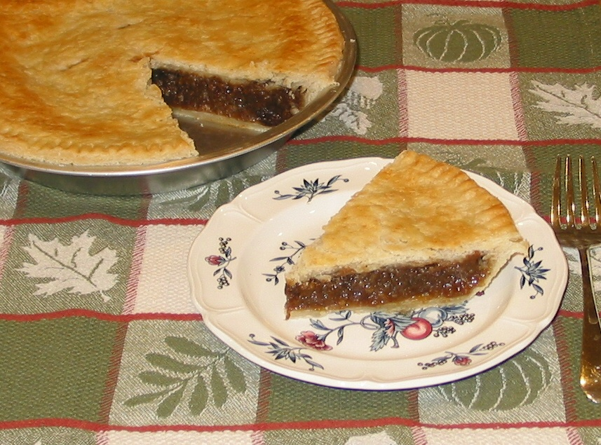 Mince Pie - Falmouth Maine, USA. The mincemeat in this pie contains apples, beef, sugar, raisins, suet, molasses, vinegar and spices. The crust is homemade.